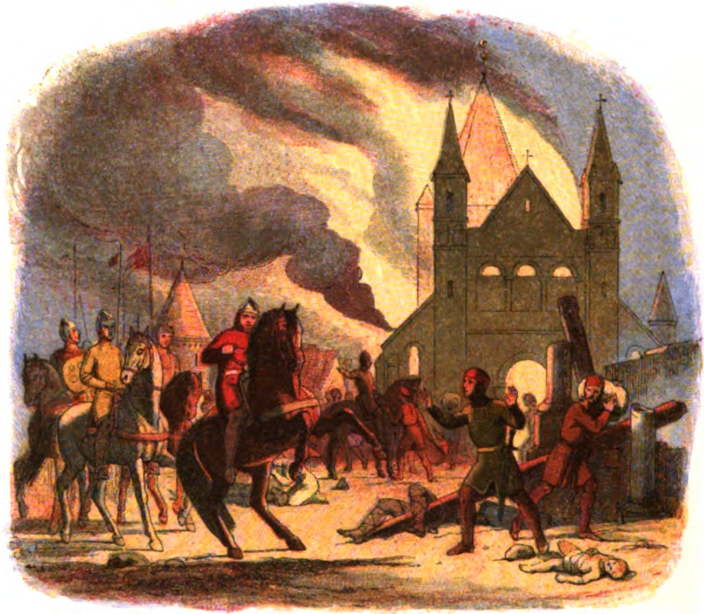 William the Conqueror fell off his horse at Mantes, suffering mortal injuries.